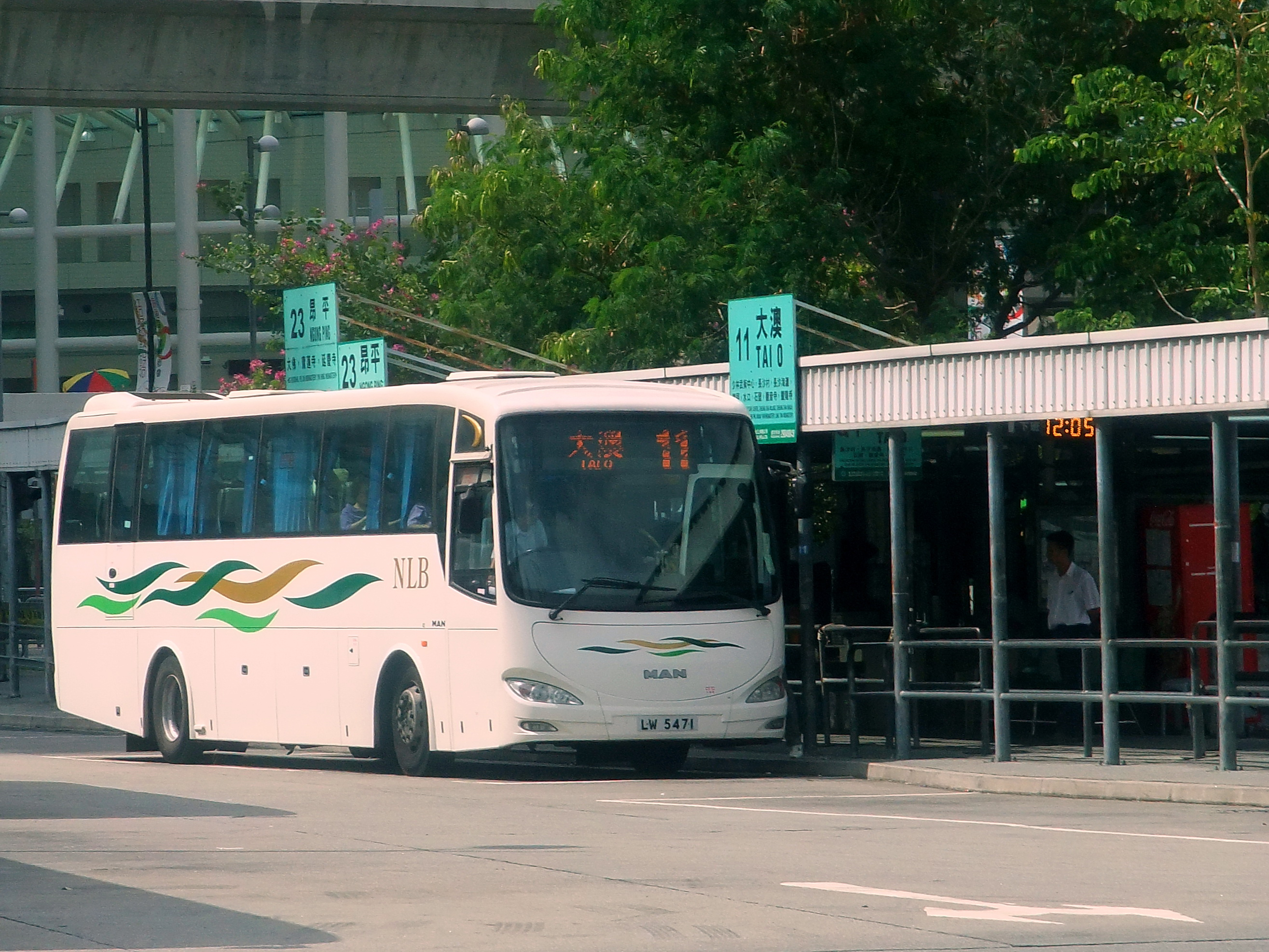 New Lantao Bus Route 11, Lantau Island, Hong Kong.